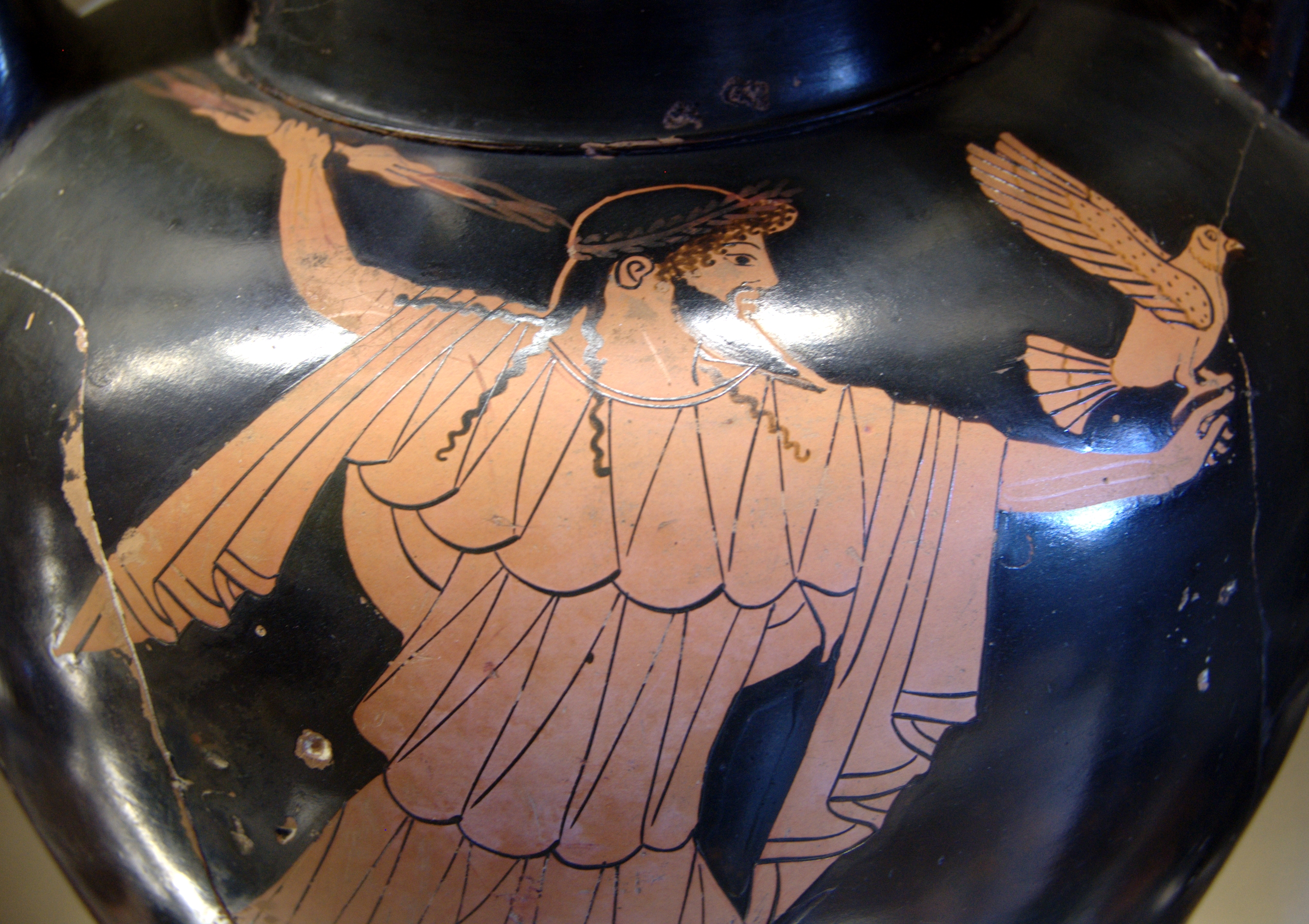 Zeus wielding the thunderbold in his right hand and holding an eagle (?) on the other hand. Detail of an Attic red-figure amphora.